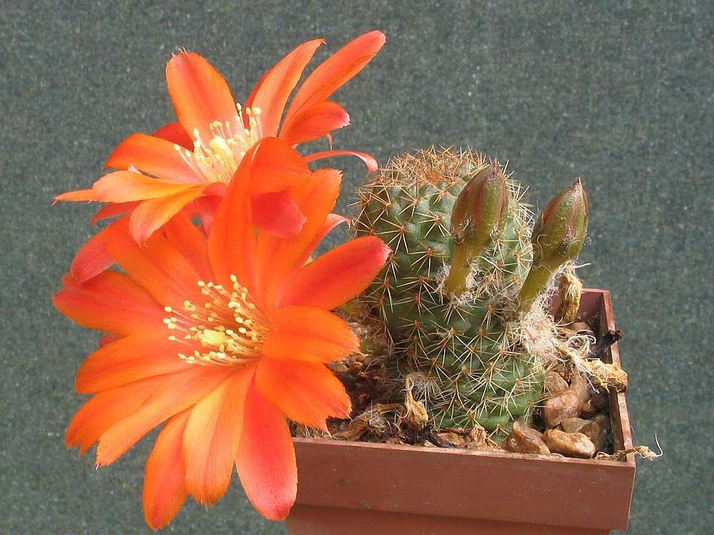 Rebutia deminuta Rebutia tarvitaensis - cultivated plant (seed marked FR773) from own collection.